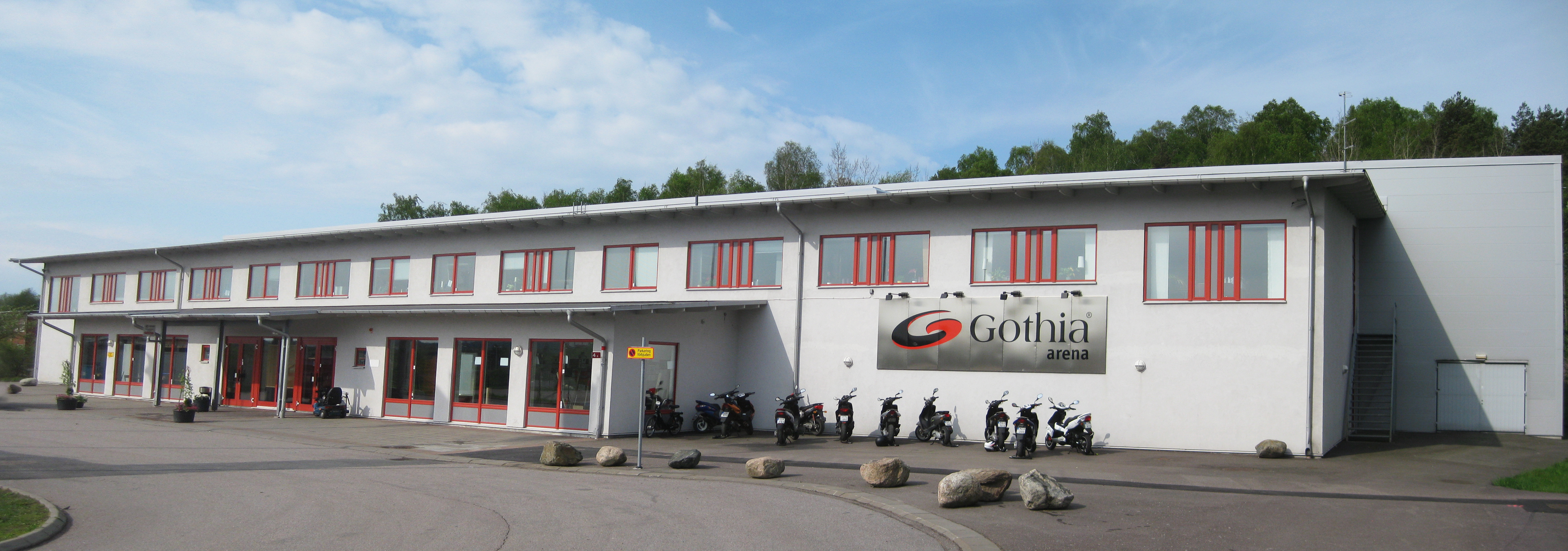 Gothia Arena in Västra Frölunda, Göteborg, Sverige.